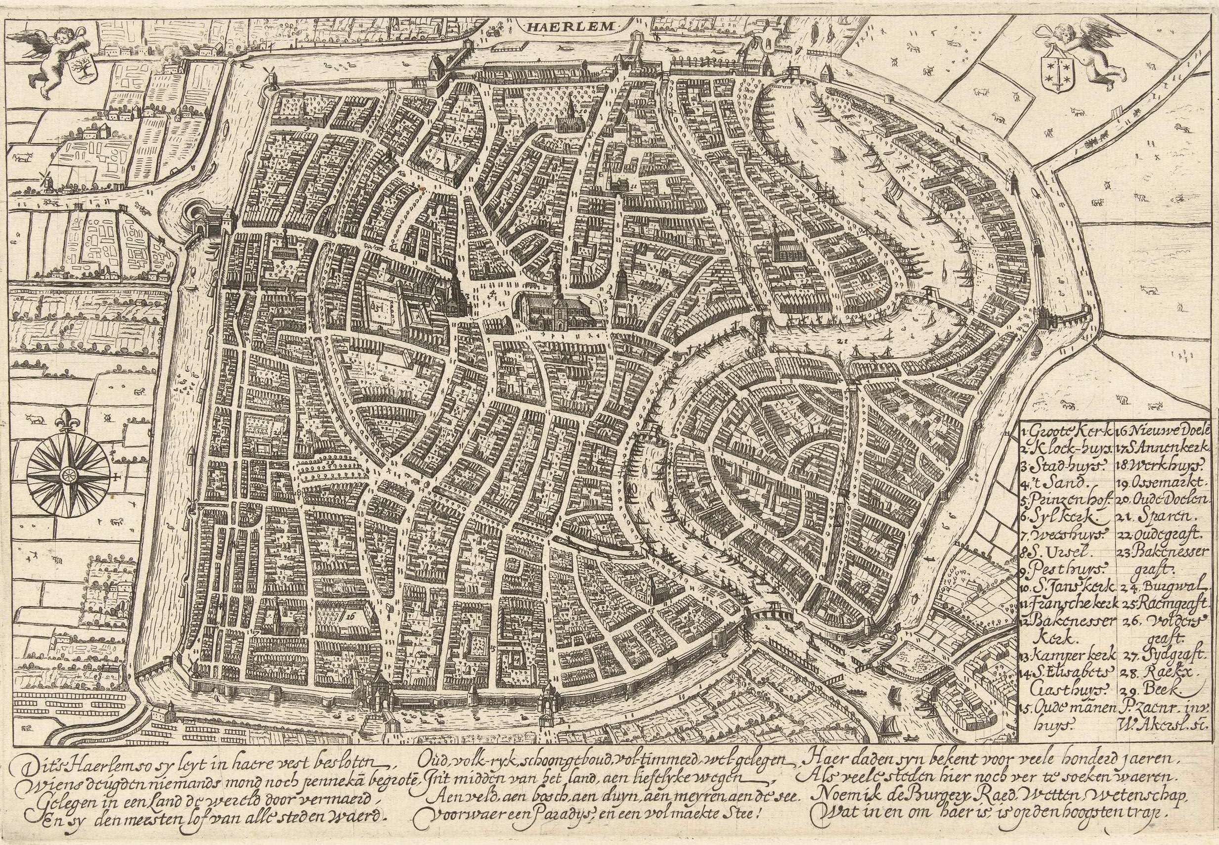 Map of Haarlem in 1628 from "Description of Haarlem" (Beschrijvinge ende lof der stad Haerlem in Holland), 1628